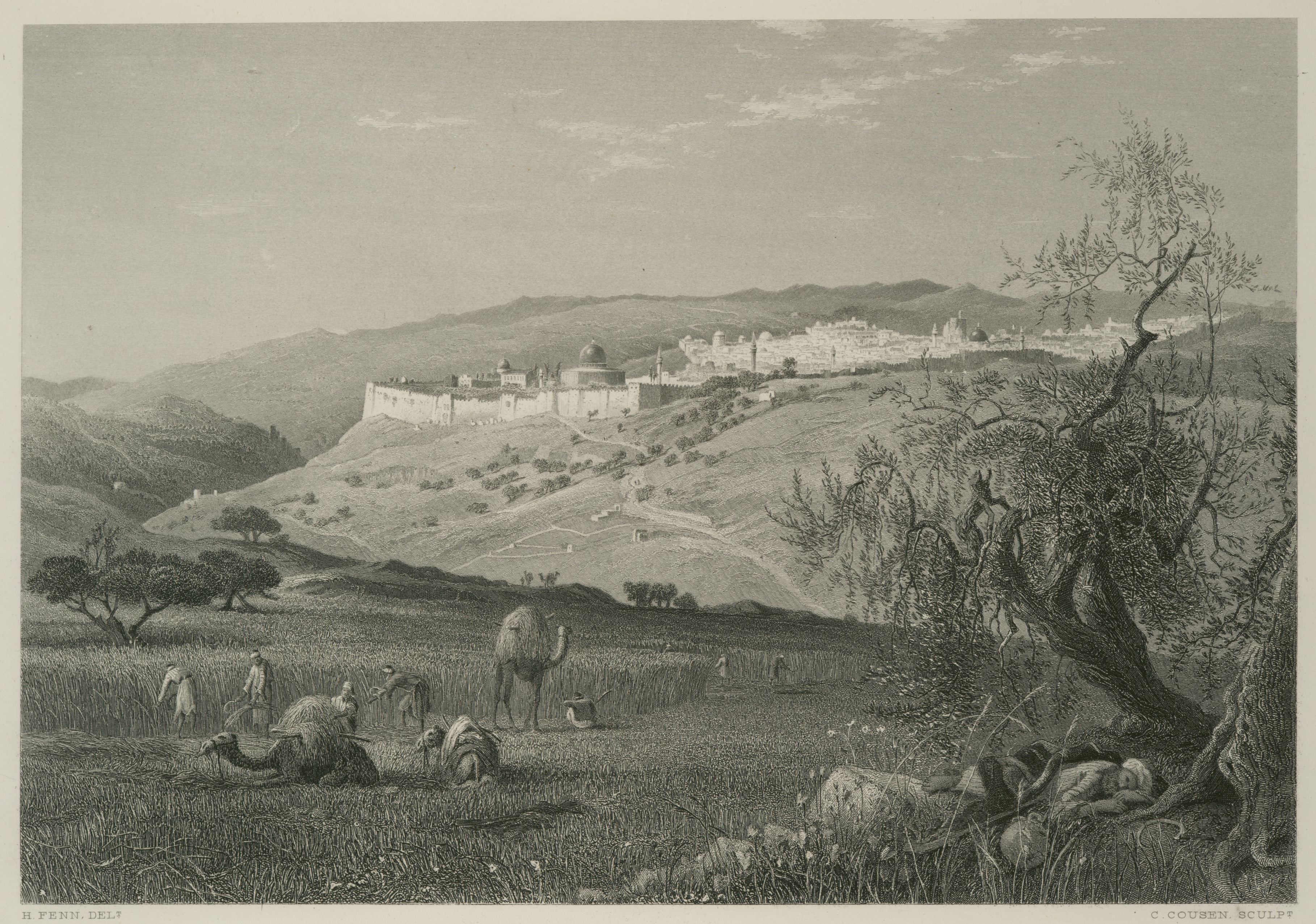 Colonel Wilson, ed.